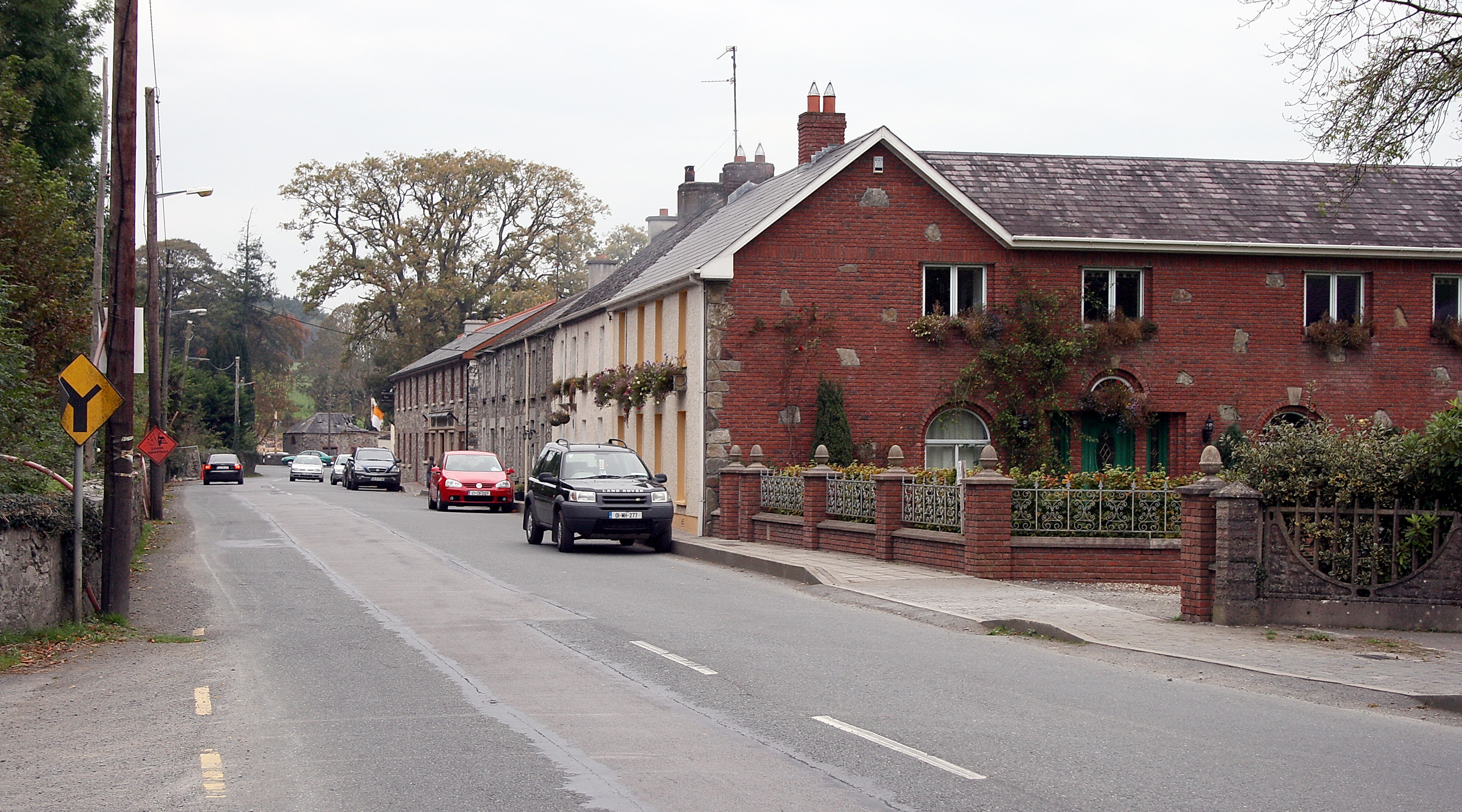 Crossdoney, County Cavan, near to Crossdoney, Bellahillan Bridge, Lisnamandra, Bellville and Drumcarban, Cavan, Ireland. On the R198.